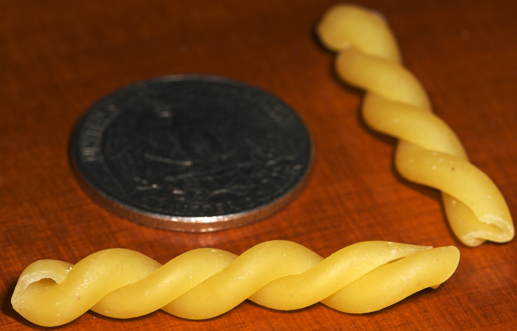 Uncooked gemelli pasta with an American quarter for scale.